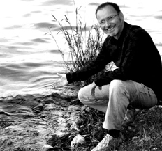 Photograph of Herbert Dreiseitl